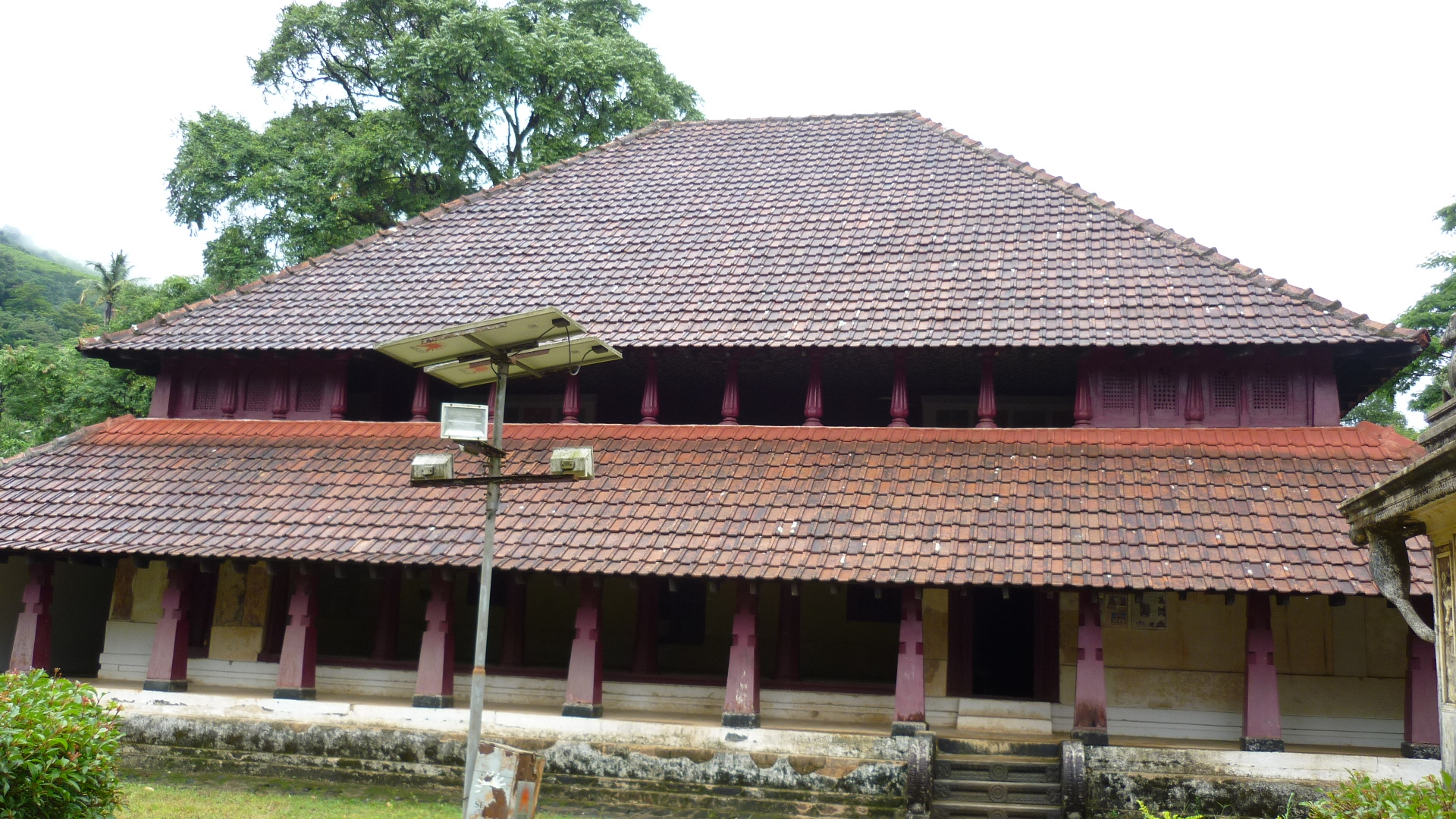 Nalakanadu Palace